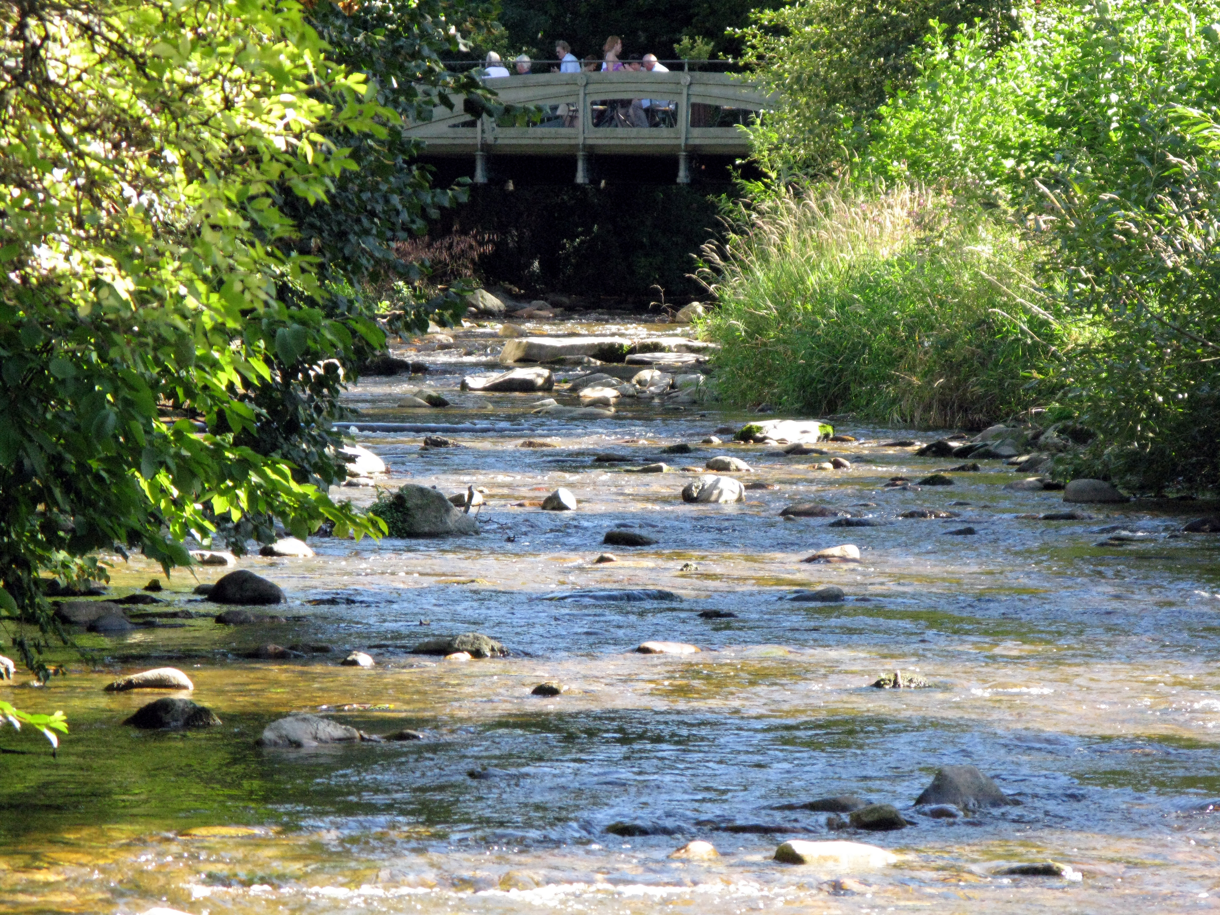 River Neumagen in Staufen